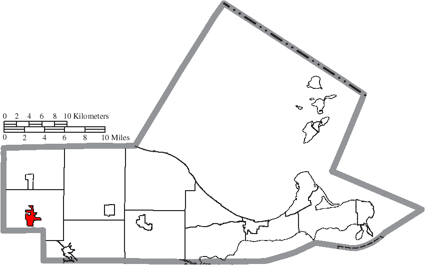 Map of the municipal and township boundaries of Ottawa County, Ohio, United States, as of the 2000 census, with the location of the village of Genoa highlighted. Township borders are shown only in unincorporated areas in order to differentiate incorporated and unincorporated areas more clearly.